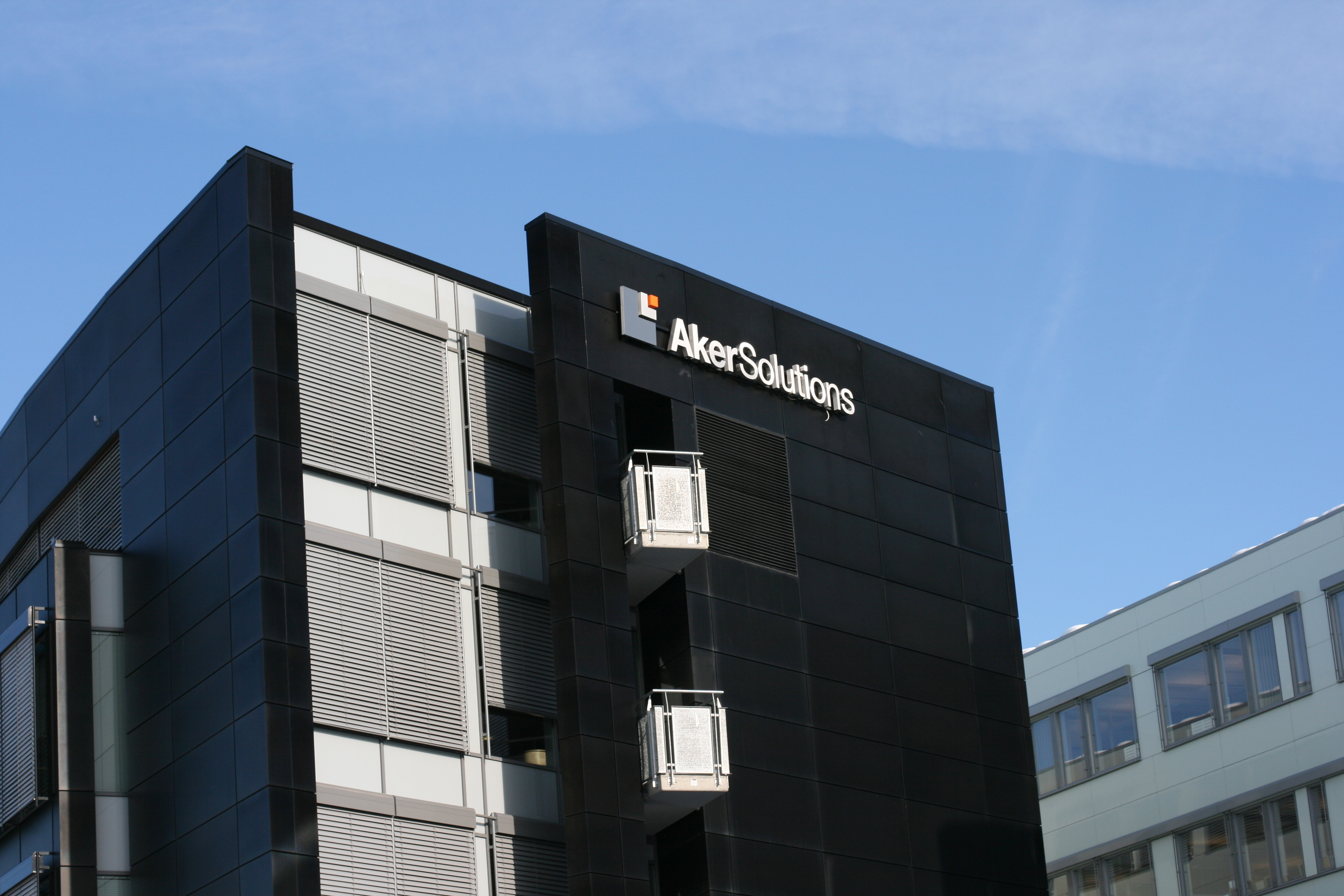 Aker Solutions HQ.